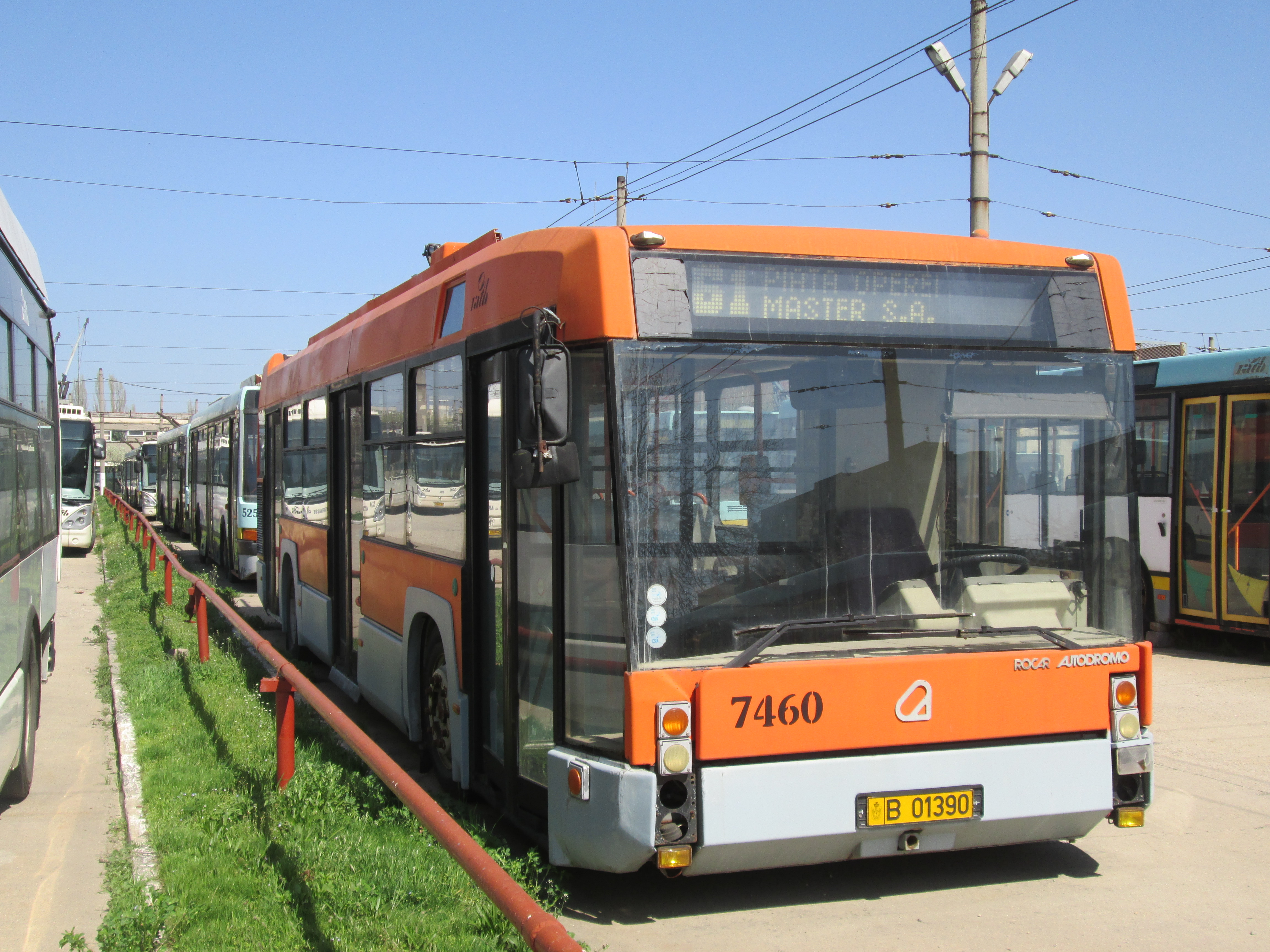 Rocar Autodromo 812E trolleybus number 7460 (manufactured 1998) in the Bujoreni depot. Just like 7459, both are suffering from lack of parts and are waiting for better days.